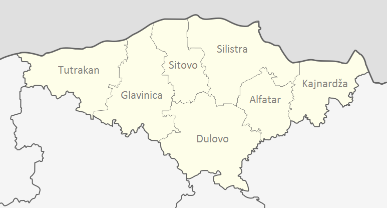 Croatian names on map of Silistra District (Bulgaria)